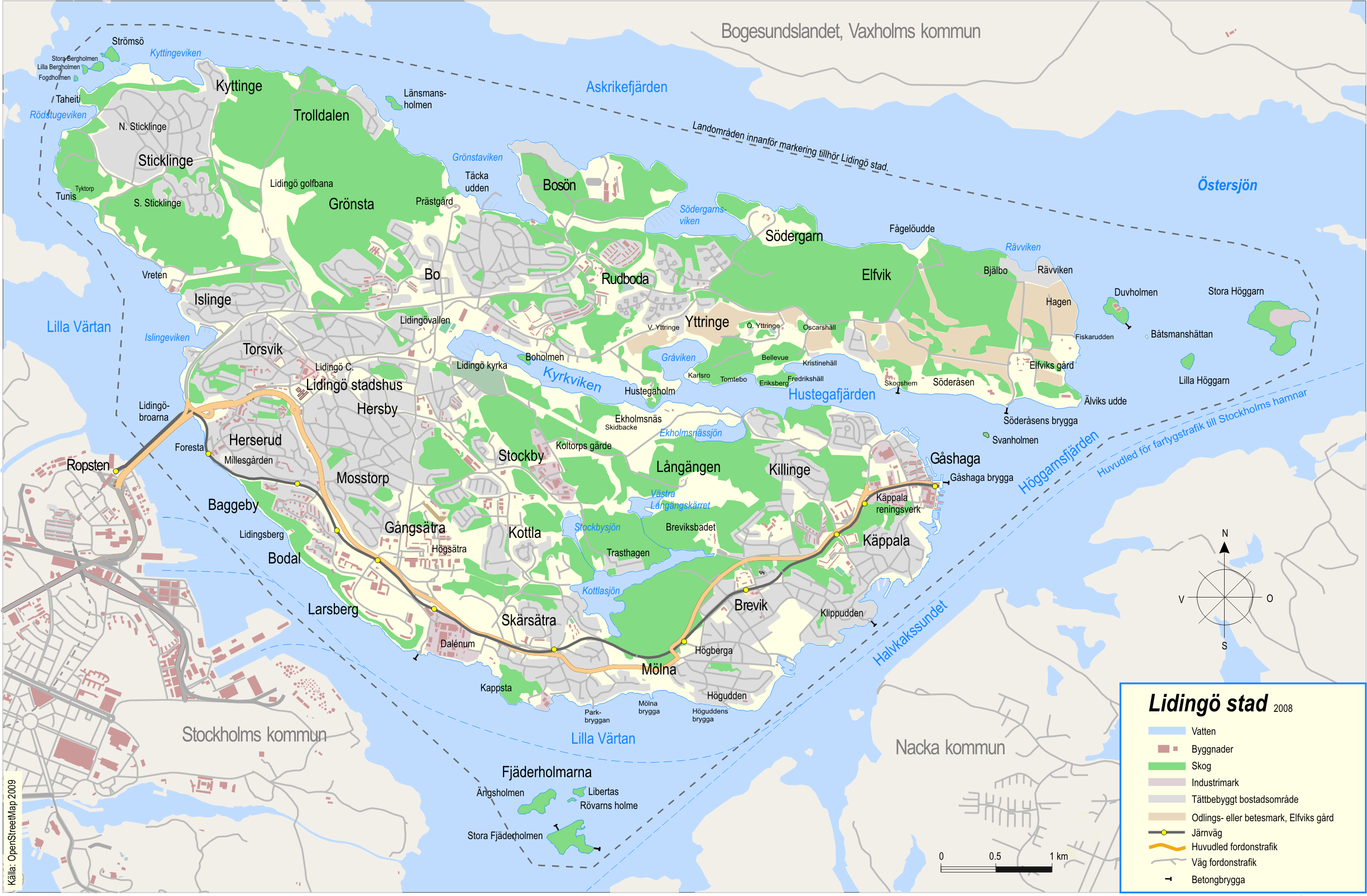 Map of Lidingö, Stockholm, Sweden